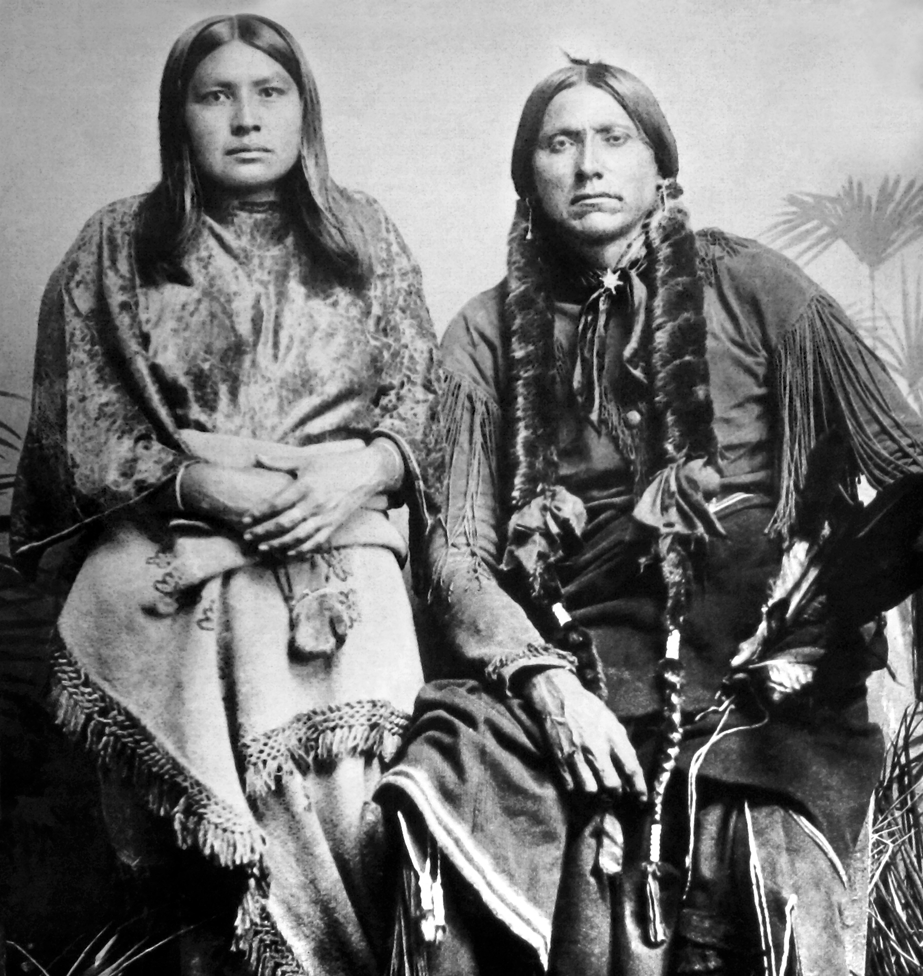 Quanah Parker († 1911) an his wife